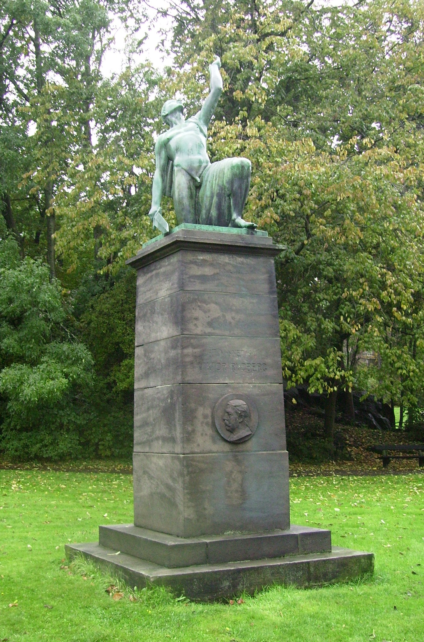 Picture of the statue Den siste athenaren (the last Athenian) in Göteborg